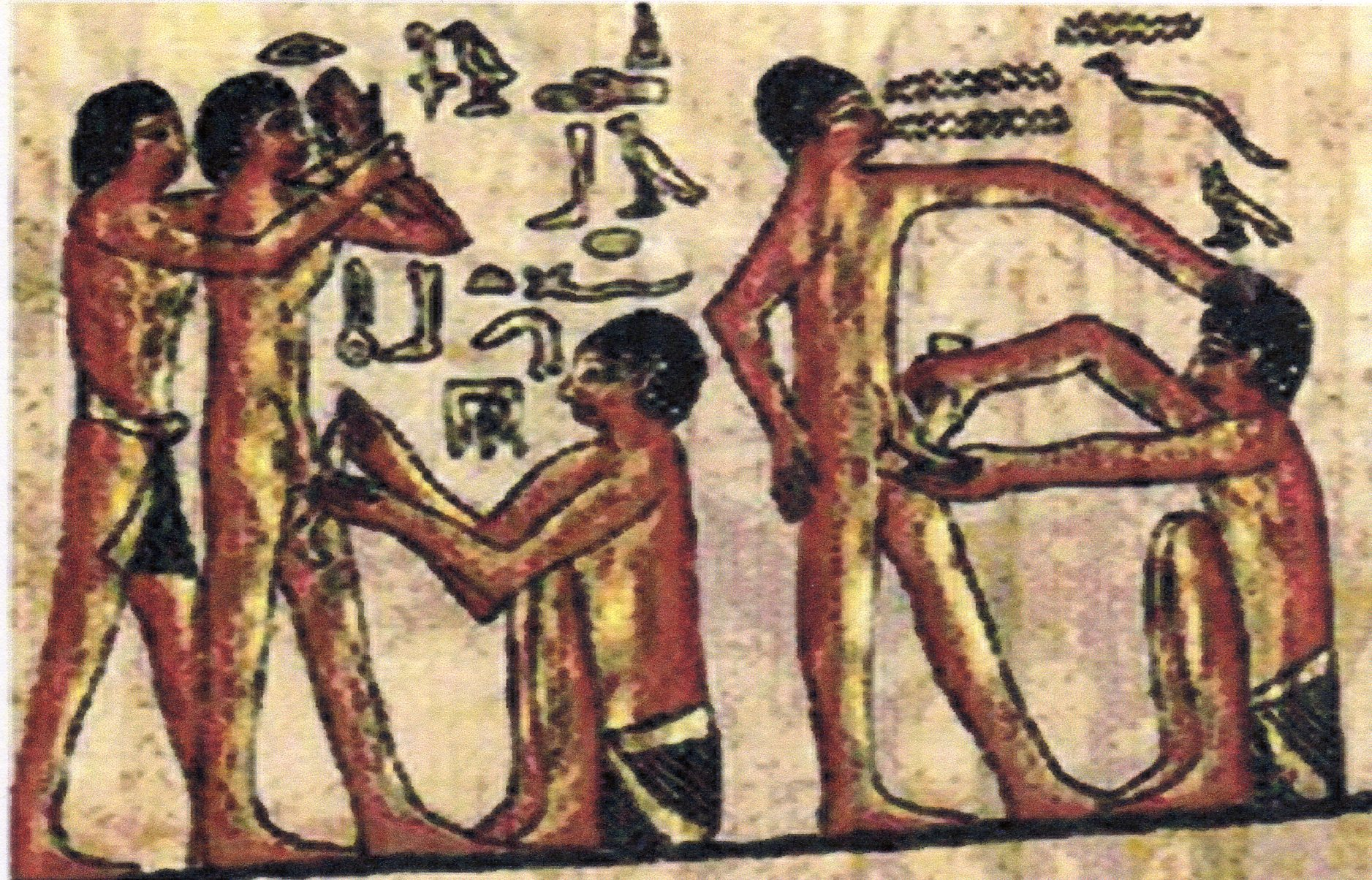 This is a poor papyri copy reproduced sold to tourists from an original relief line-art of the ancient Egyptian stela now on display at the Oriental Institute in Chicago, Illinois. It is a depiction originally in Ankhmahor’s tomb dating to Dynasty 6 and reign of King Teti (2355-2343 BCE) which appears on the east thickness of a doorway in the tomb in the pyramid complex of Teti. Depicting two men being circumcised, the scene has been interpreted in different ways however the nude male at right is surmounted by an inscription in which he says: sin wnnt r mnx (“Sever, indeed, thoroughly”) and the man kneeling before him, identifed as a Hm-kA, mortuary priest, says: iw(.i) r irt r nDm (“I will proceed carefully”). Finally the man doing the restraining is saying: nDr sw m rdi dbA.f (“Hold him fast. Do not let him faint”) whilst the restrainer says: iri.i r Hst.k (“I will do as you wish”). The Greek historian Herodotus, writing in the mid fifth century BCE, stated the Egyptians “practise circumcision for the sake of cleanliness, considering it better to be cleanly than comely.” translation source: The World of Ancient Egypt, ©2017, Greenwood, pp 348-9, by Peter Lacovara